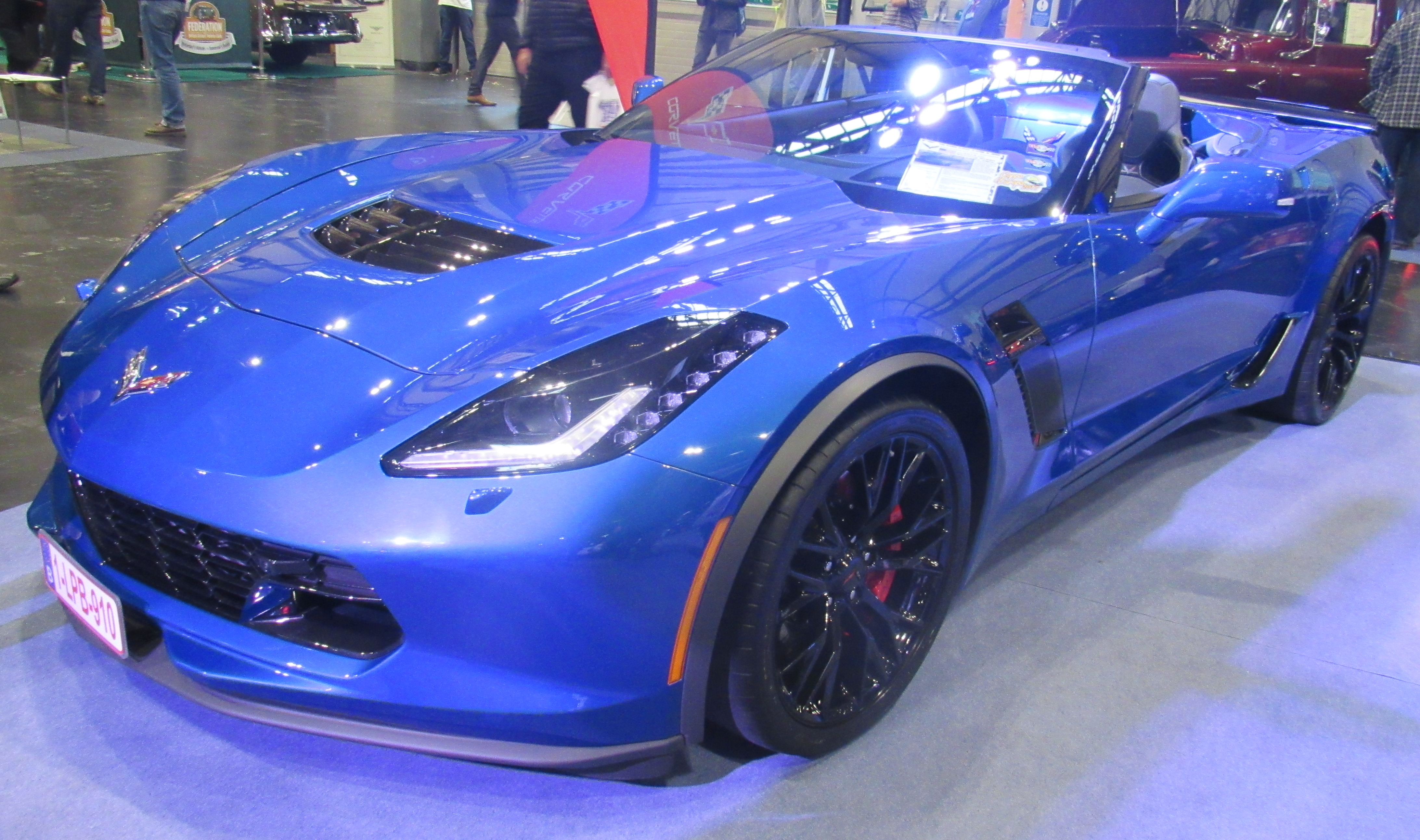 Belgium-reg Chevrolet Corvette Z06 Convertible Taken at the NEC Classic Motor Show 2017